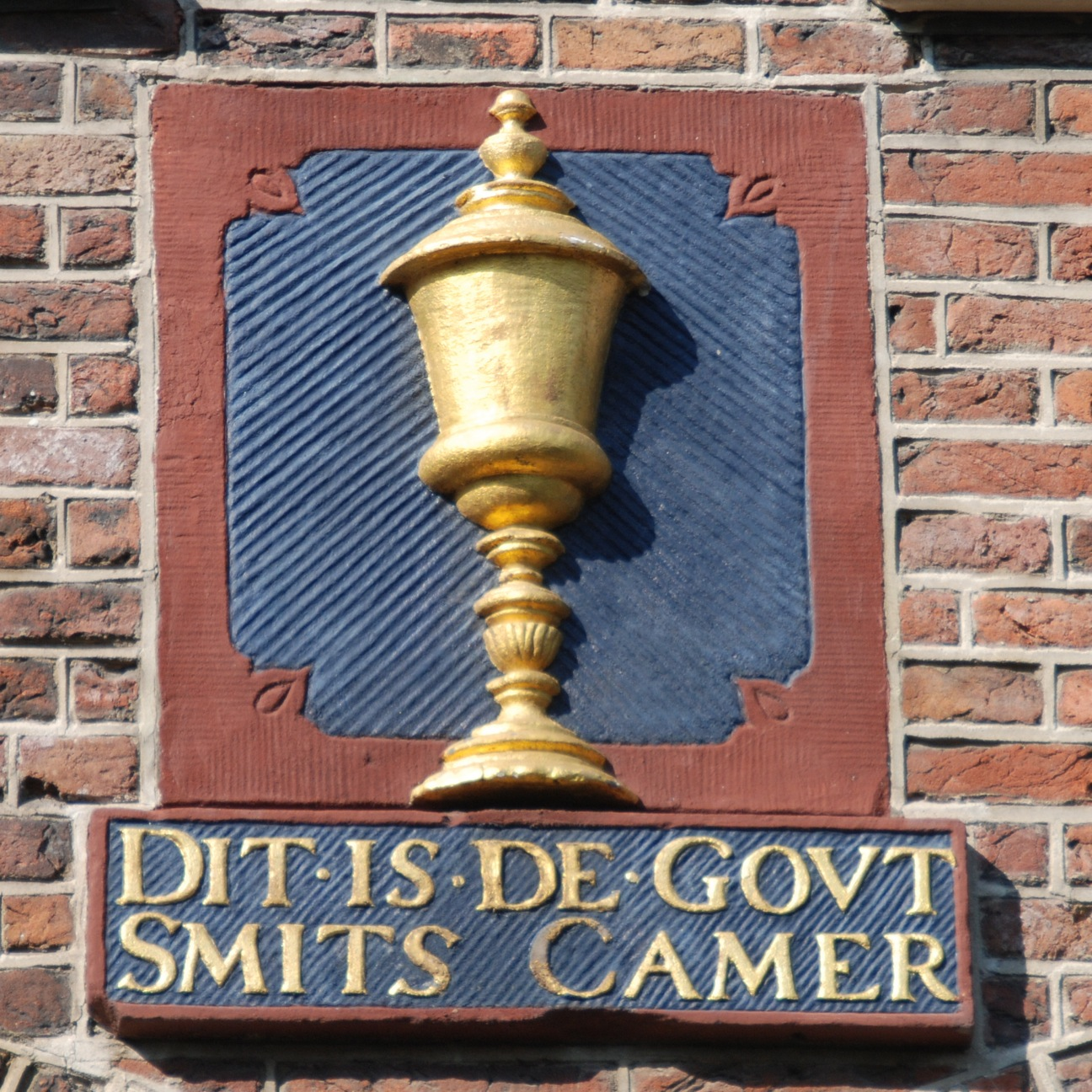 Gablestone of the goldsmiths guild (or gild) at the Goudsmidsplein (Goldsmiths square), Haarlem, The Netherlands. Date of the stone: 1626